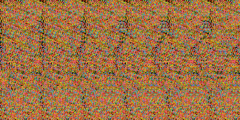 Autostereogram Tutorial Random Dot Shark Description: Random dot stereogram showing a shark, to be watched with "wall-eyed" Source: Fred Hsu, March 2005. This random dot autostereogram encodes a 3D scene of a (colorfully dotted) shark swimming before a (colorfully dotted) background, like this: It can be "seen" with proper "wall-eyed" viewing technique: the eyes have to be oriented as if focusing on an object behind the image, causing two neighboring repetition of the dot pattern to merge and the shark to appear.